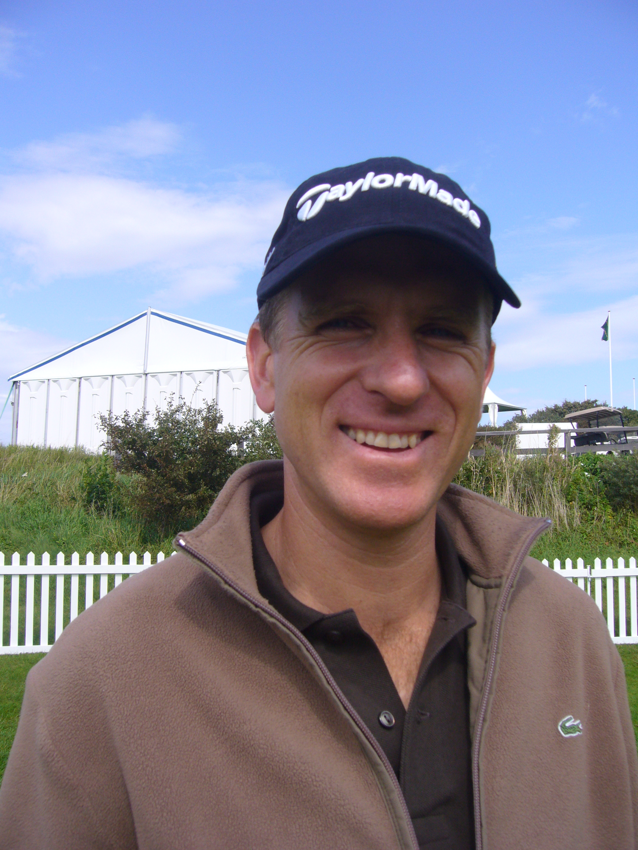 Christian Cévaër, French golfprofessional at Dutch Open